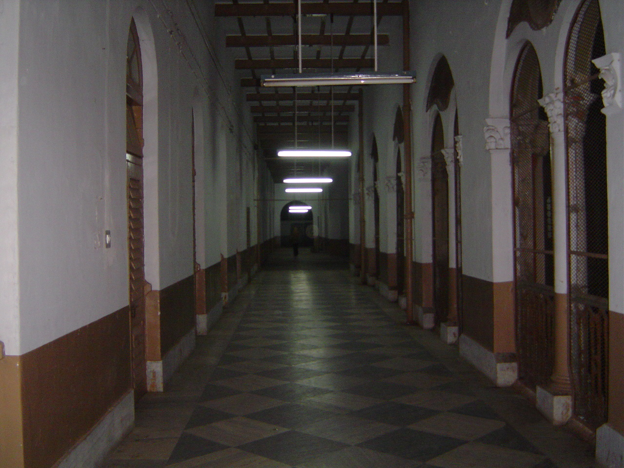 This is the corridor in the 2nd floor of Eden Hospital,Calcutta Medical College... its usualy not so desolate